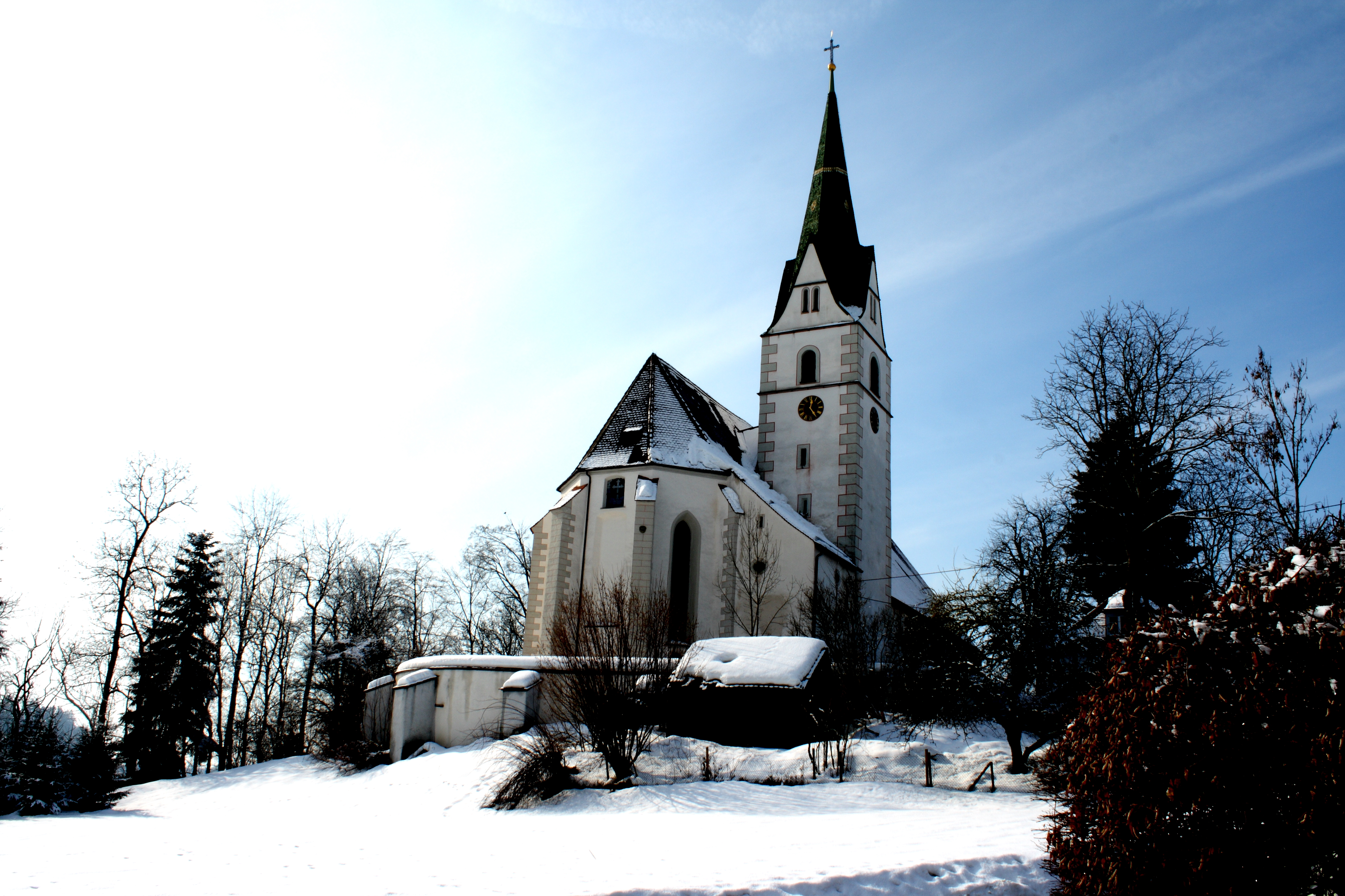 Parish Church in Pfärrich / community Amtzell